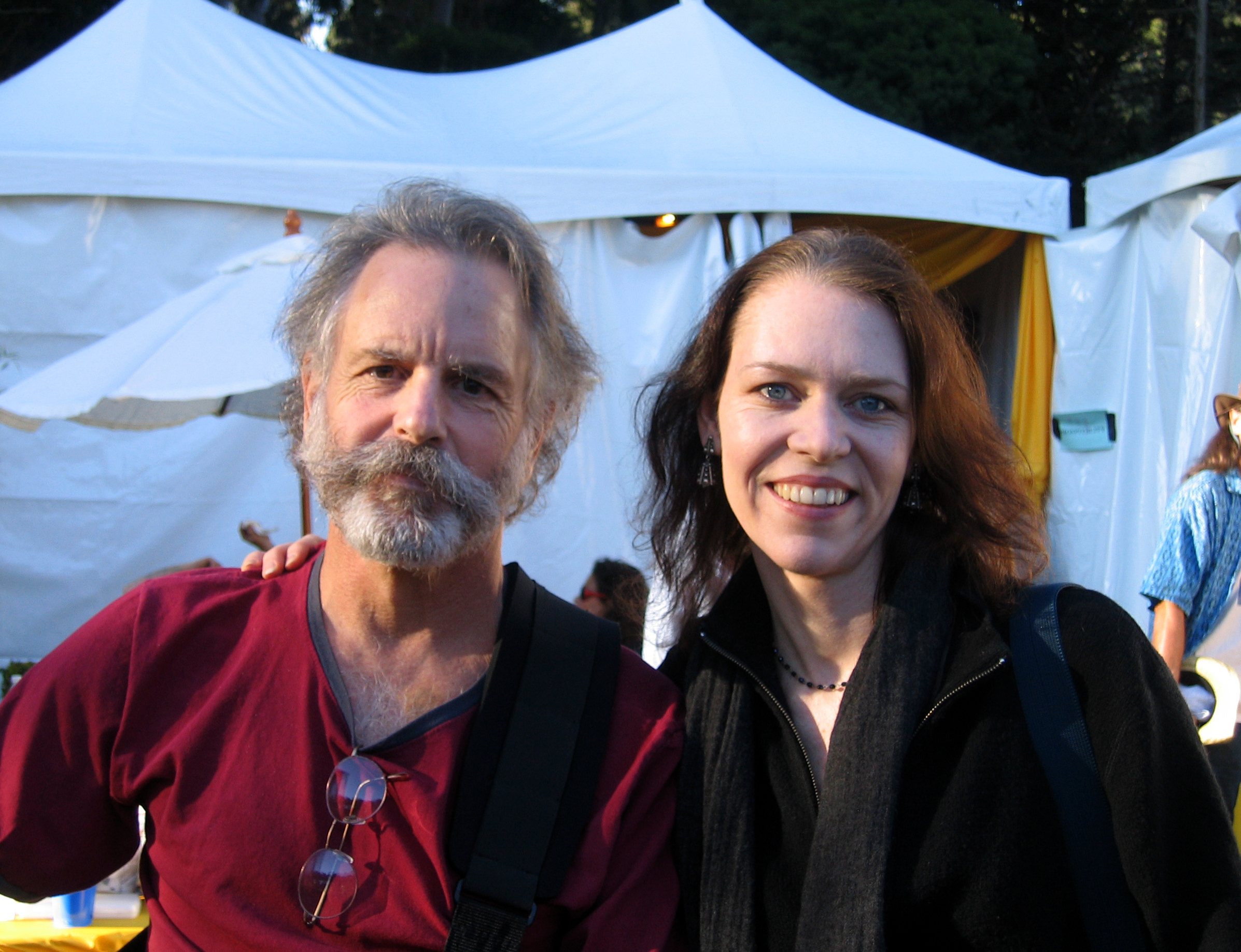 Just before the Weirbacks set at Hardly Strictly Bluegrass, Golden Gate Park 10/8/06. Welch and her partner, David Rawlings, joined the festivities onstage late in the set. Tens of thousands of fans enjoyed the music.